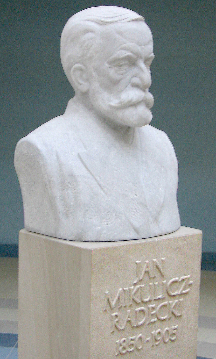 Wrocław/Breslau, Poland - new academic medical center at Borowska bust of Jan Mikulicz Radecki, German-Polish surgeon